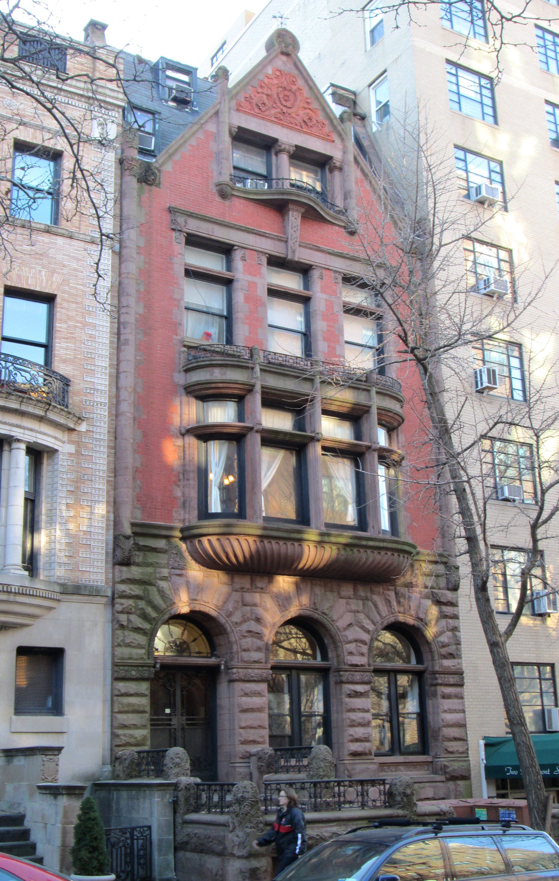 6 Pierrepont Street between Hicks Street and Pierrepoint Place in the Brooklyn Heights neighborhood of Brooklyn New York was built in 1890 as a residence for Mrs. Hallie I. James, and was designed by the Parfitt Bros. in the Romanesque Revival style. (Source: "The Brownstoner")